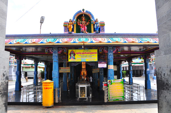 Arulmigu Badrakaliamman Temple Mecheri